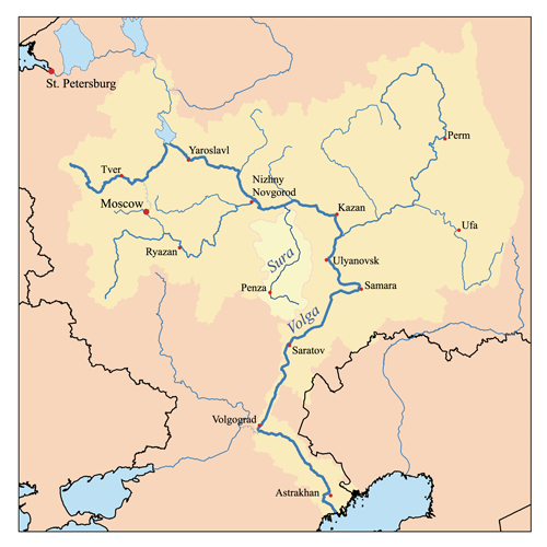 This is a map of the Volga River system with the Sura River highlighted. I, Karl Musser, created it based on USGS data.